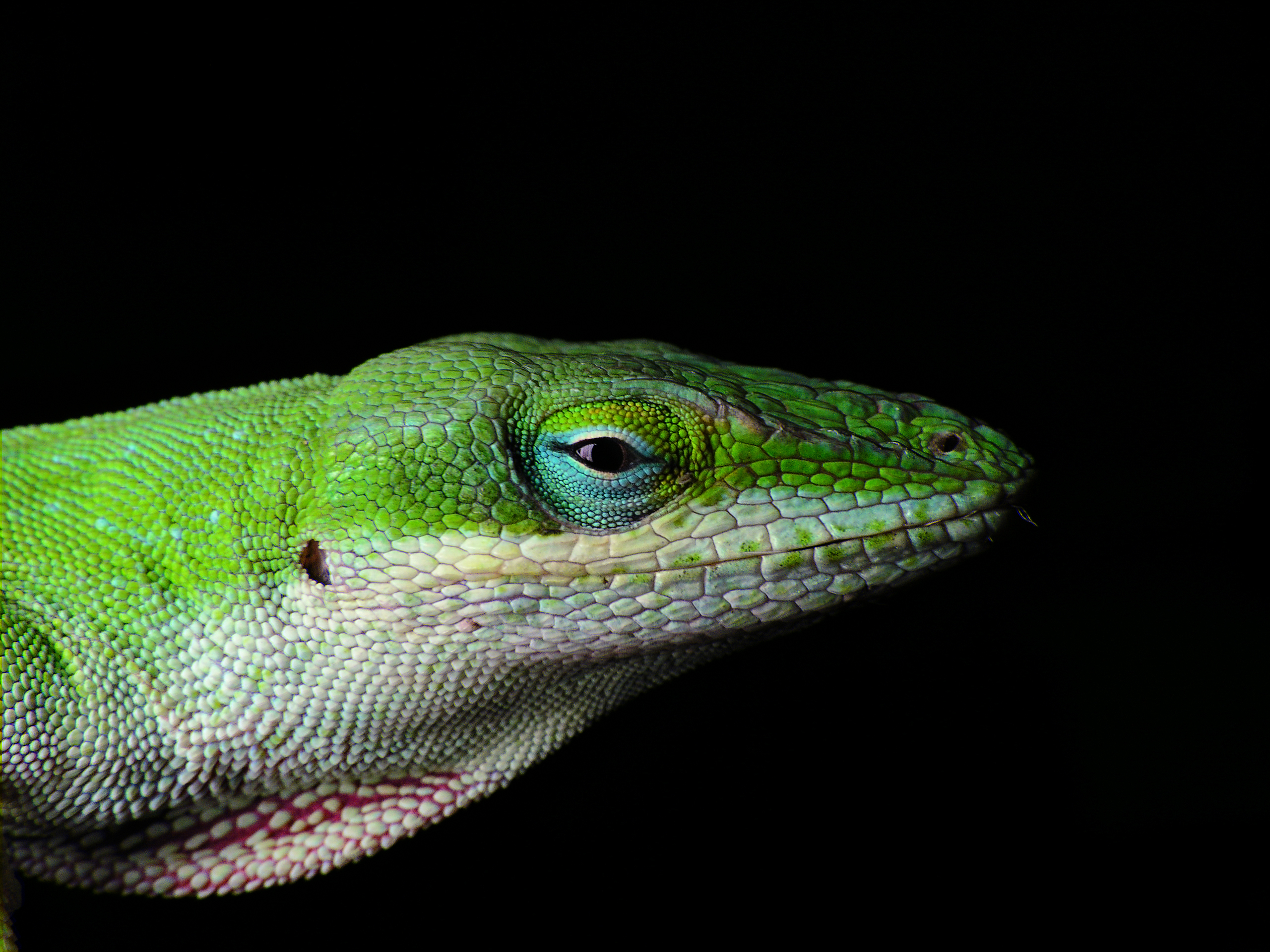 Male Carolina Anole with partially expanded dewlap.